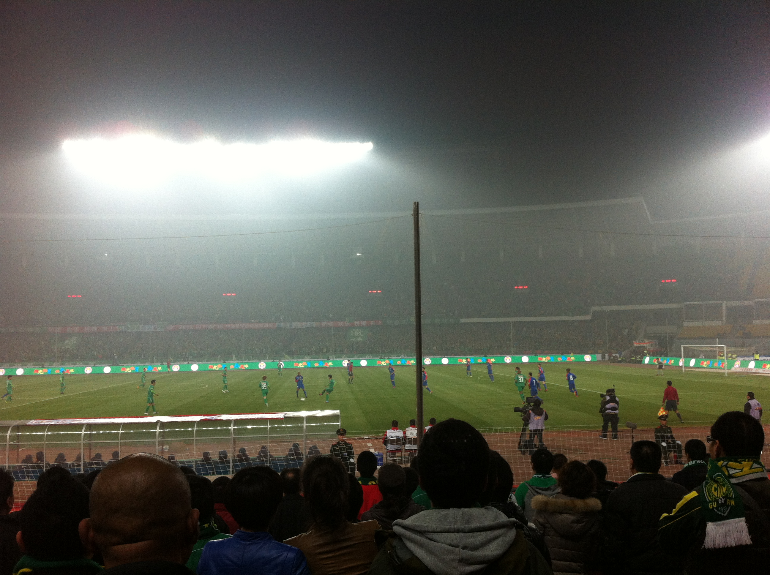 National Derby? Maybe.